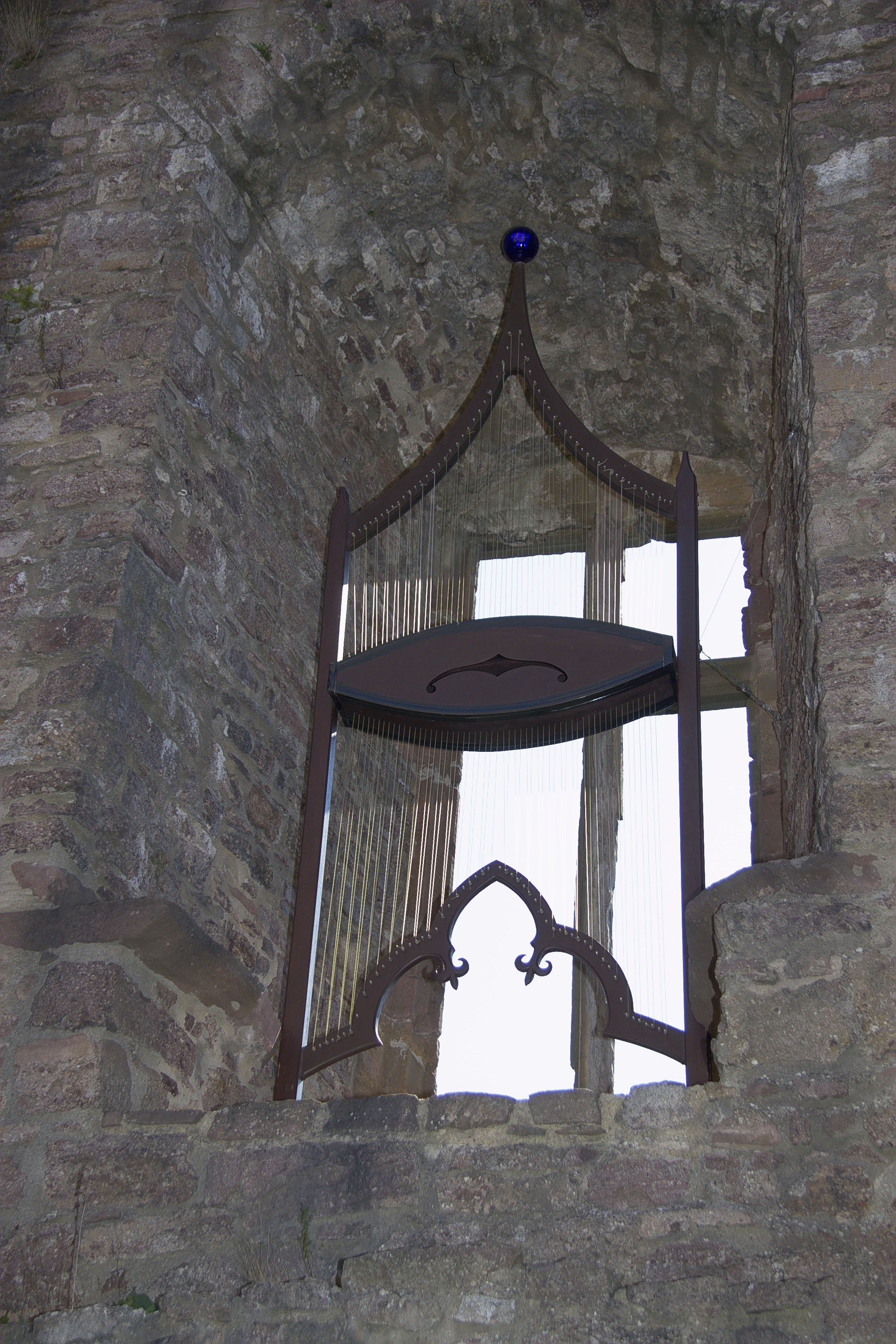 Aeolian Harp at the Hohenbaden castle. Baden-Baden, Germany